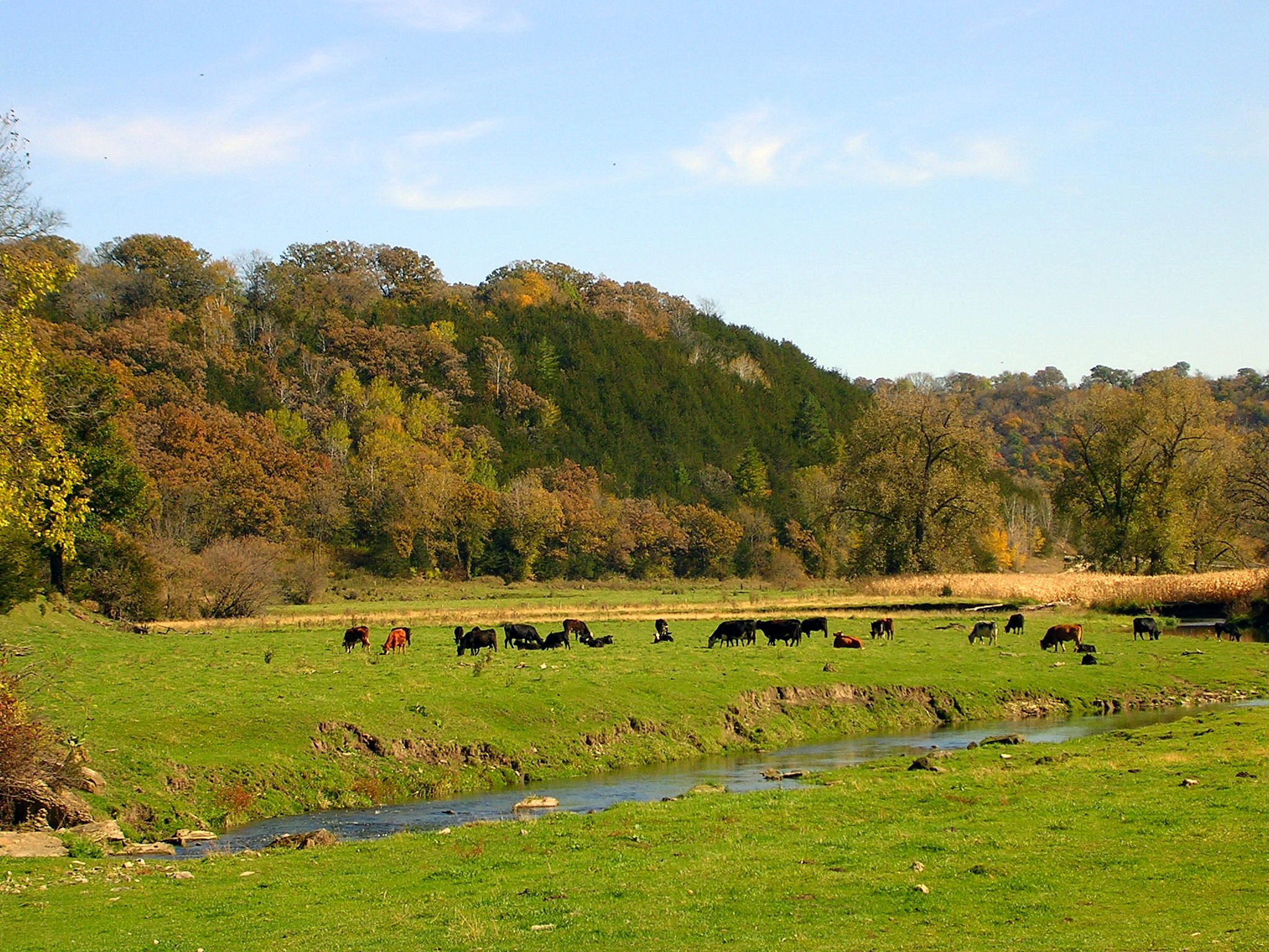 Cattle herd grazing in pasture in autumn, Fillmore County, Minnesota, USA